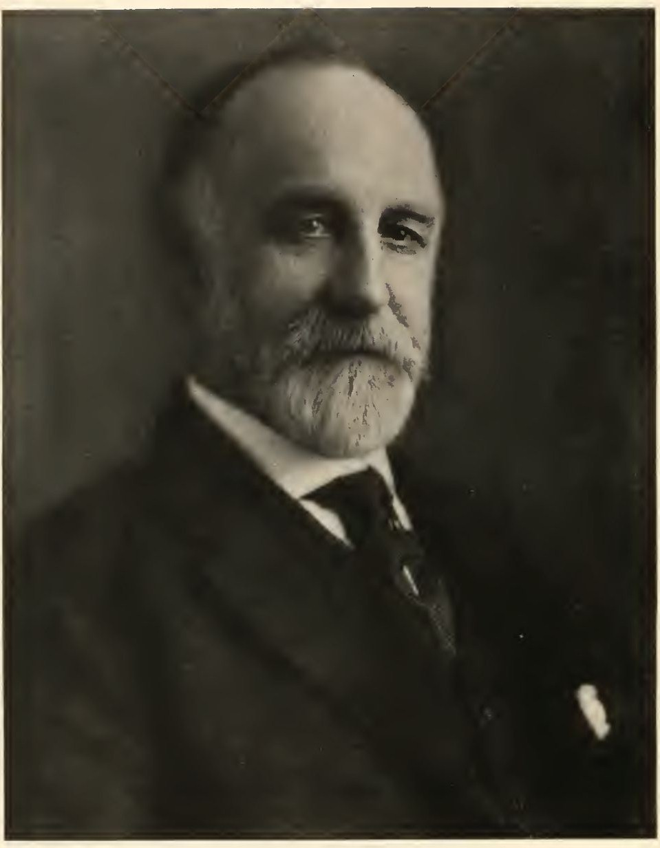 Frontis photo from Biography and Bibliography of Jesse Walter Fewkes, Francis S. Nicoles, 1919